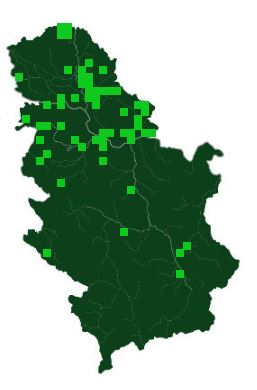 Rasprsotranjenje vrste u Srbiji (Alciphron)